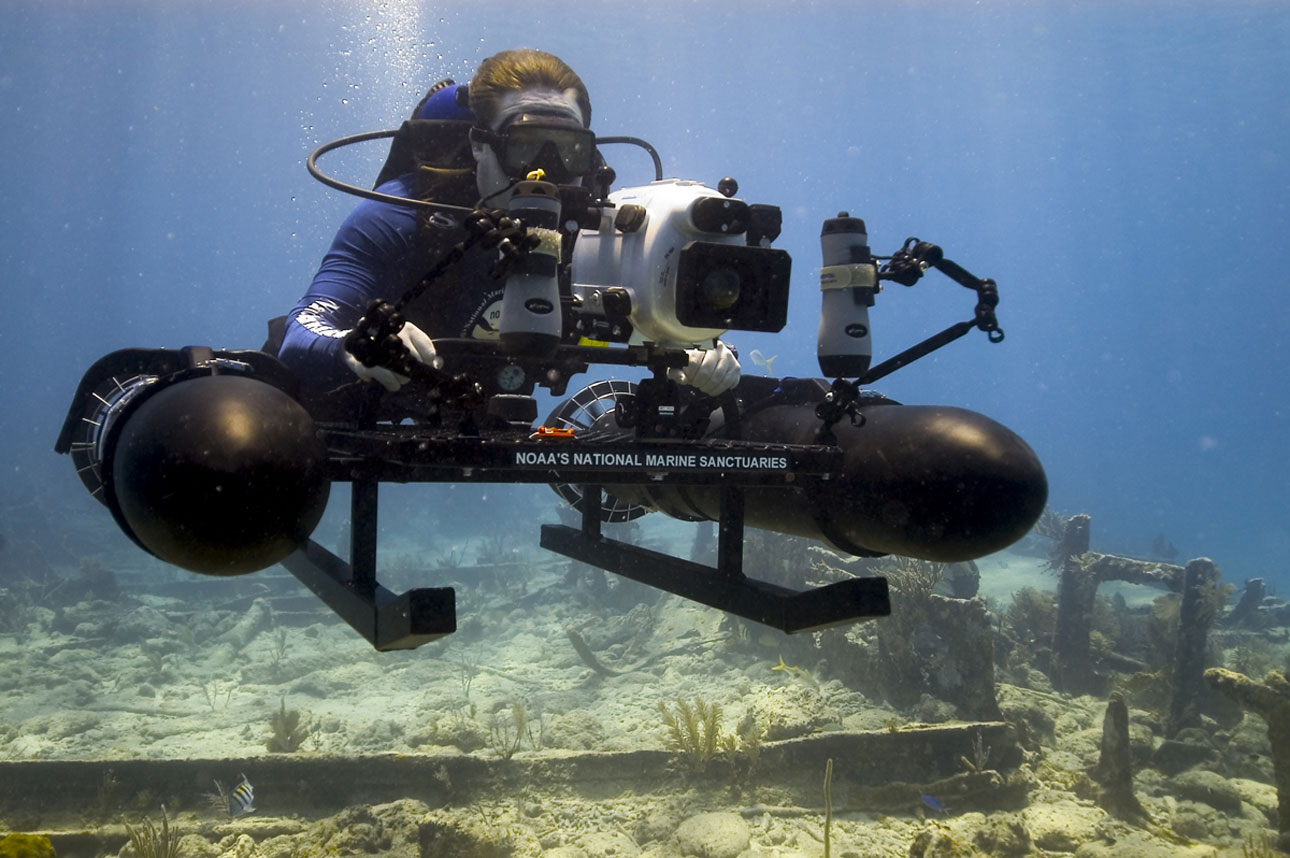 A NOAA archaeologist photographs a wreck site in Florida Keys National Marine Sanctuary using specially a constructed sled mounted with a high-resolution camera.